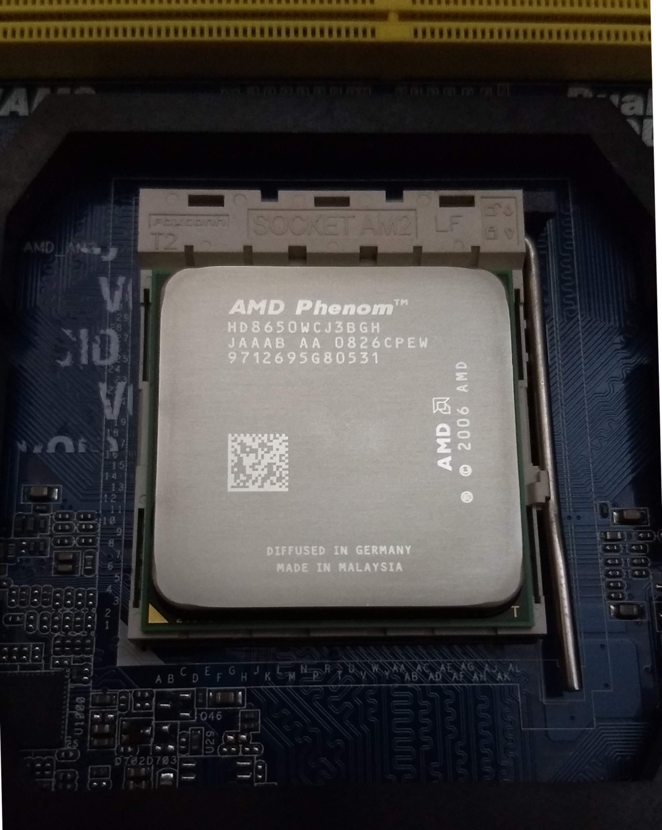 An AMD Phenom X3 8650 "Toliman" processor installed on an ASRock N68-S motherboard through its AM2+ Socket